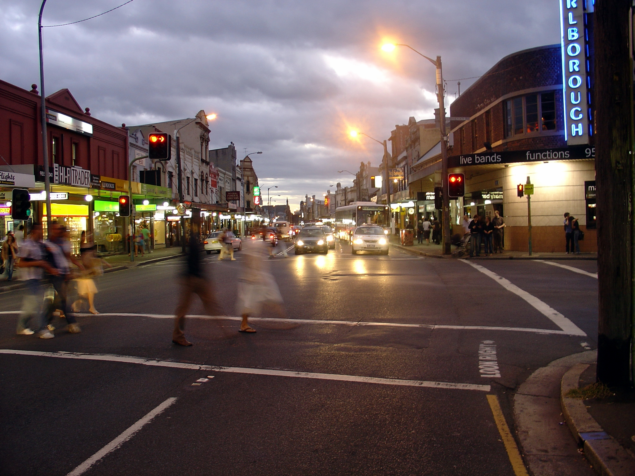 Corner of King Street and Missenden Road